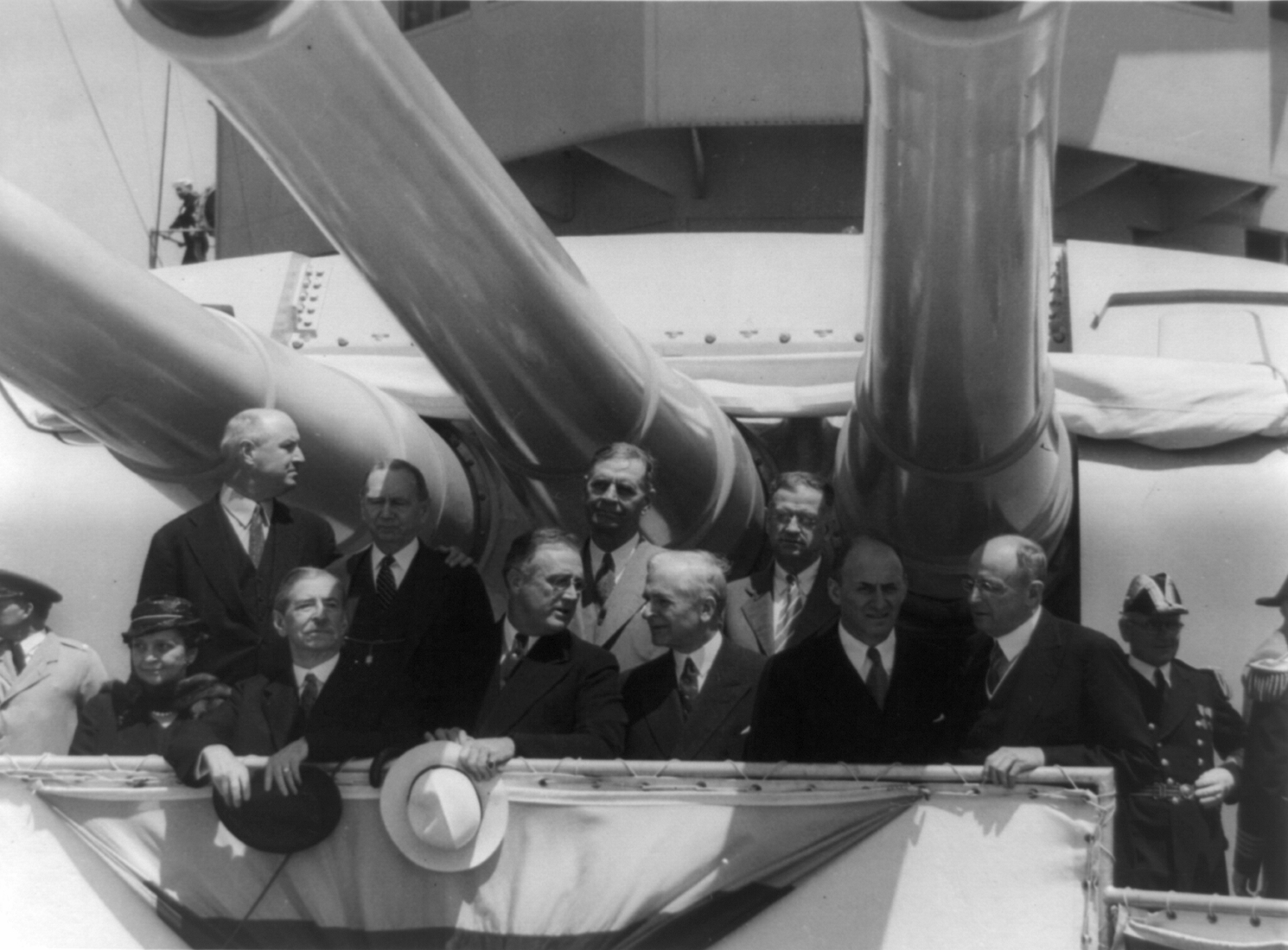 Franklin D. Roosevelt and others posed under large guns on battleship. Front row, left to right: Pa Watson, Frances Perkins, Claude A. Swanson, Franklin D. Roosevelt, George H. Dern(?), Henry Morgenthau, Jr., Homer S. Cummings; back row, left to right: James A. Farley, Daniel C. Roper, ... and Harold L. Ickes.